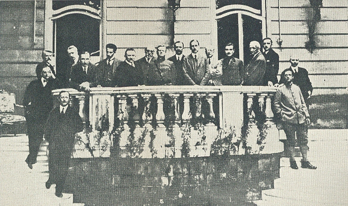 Polish National Committee (1917–1919) in Paris 1918